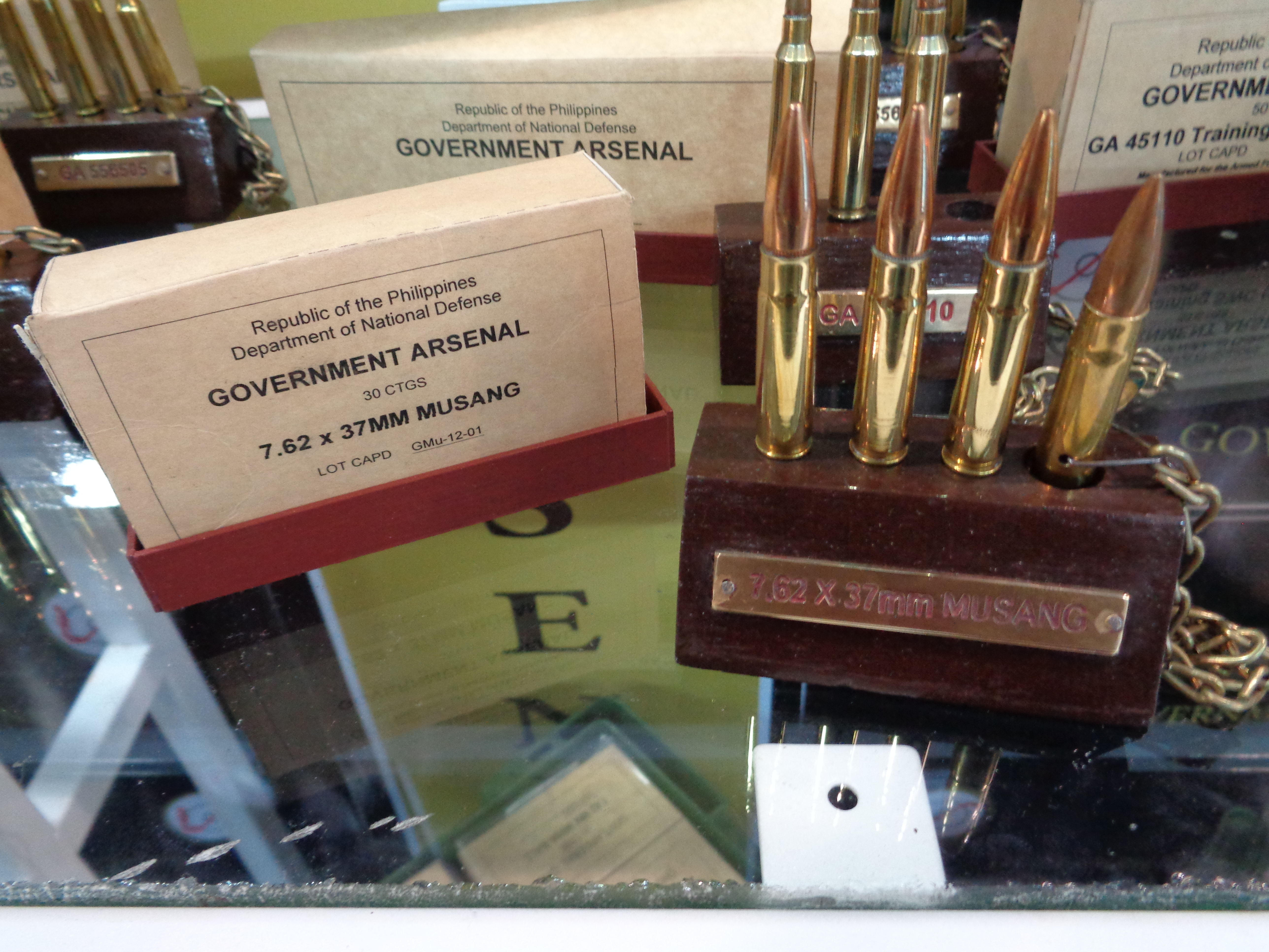 7.62×37mm Musang cartridges at Government Arsenal booth during 23rd AFAD Defense & Sporting Arms Show (June 11, 2015).